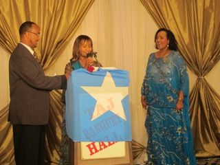 Somali singer Saado Ali Warsame with Hodan Nalayeh of the SRAP and Hassan Abdillahi "Karate" of Ogaal Radio at an SRAP event in Toronto (2011).